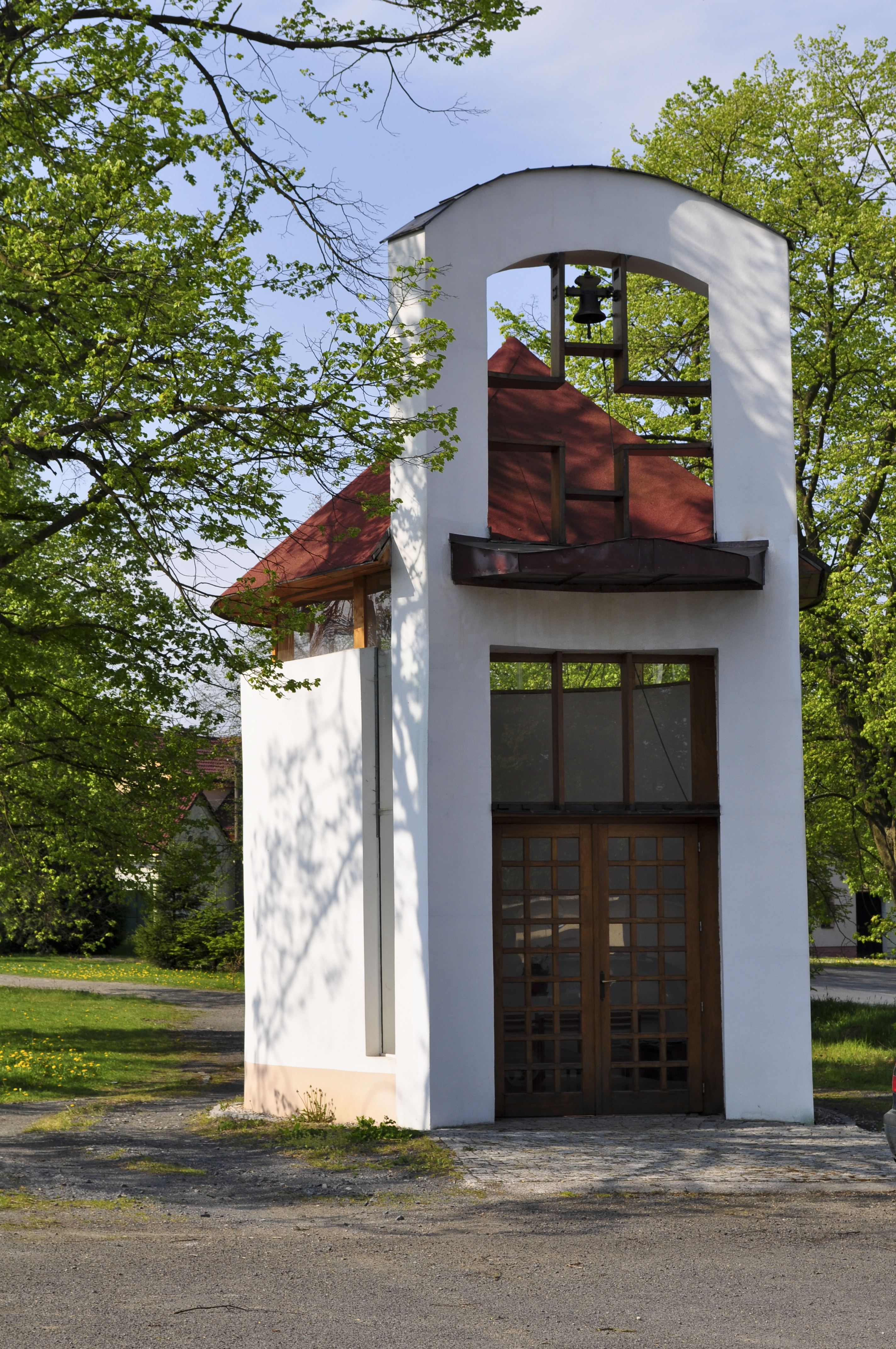 Lipnice, chapel